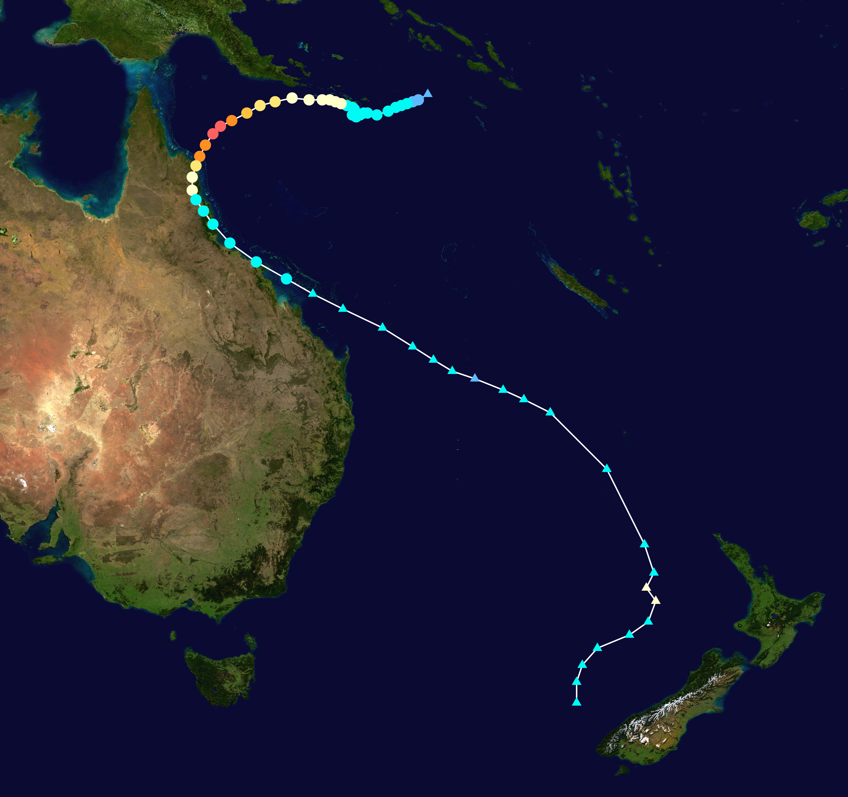 Track map of Severe Tropical Cyclone Ita of the 2013-14 Australian region cyclone season. The points show the location of the storm at 6-hour intervals. The colour represents the storm's maximum sustained wind speeds as classified in the Saffir–Simpson scale (see below), and the shape of the data points represent the nature of the storm, according to the legend below. Saffir–Simpson scale Tropical depression≤38 mph≤62 km/h Category 3111–129 mph178–208 km/h Tropical storm39–73 mph63–118 km/h Category 4130–156 mph209–251 km/h Category 174–95 mph119–153 km/h Category 5≥157 mph≥252 km/h Category 296–110 mph154–177 km/h Unknown Storm type Tropical cyclone Subtropical cyclone Extratropical cyclone / Remnant low / Tropical disturbance / Monsoon depression